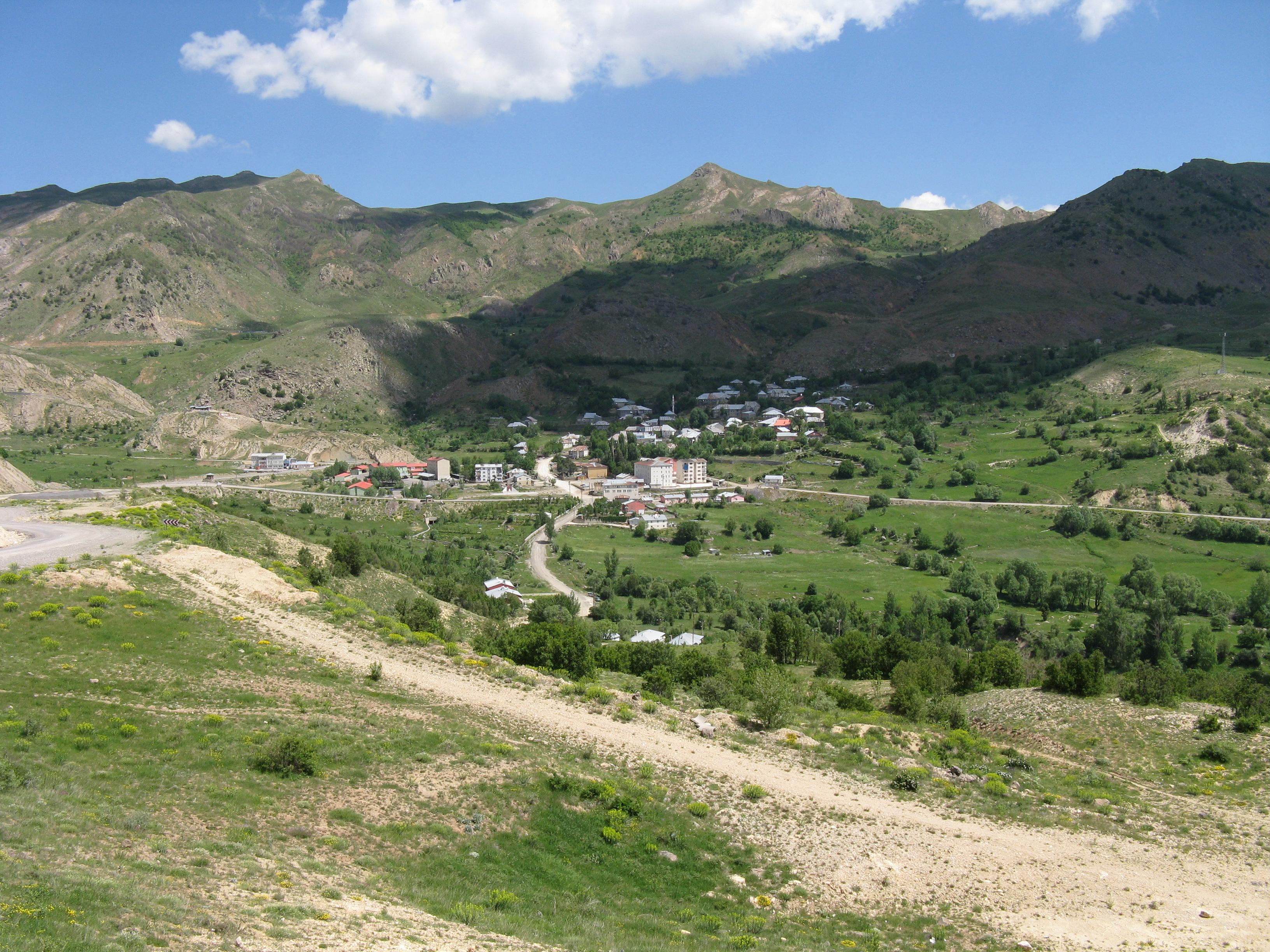 Yayladere Centrum